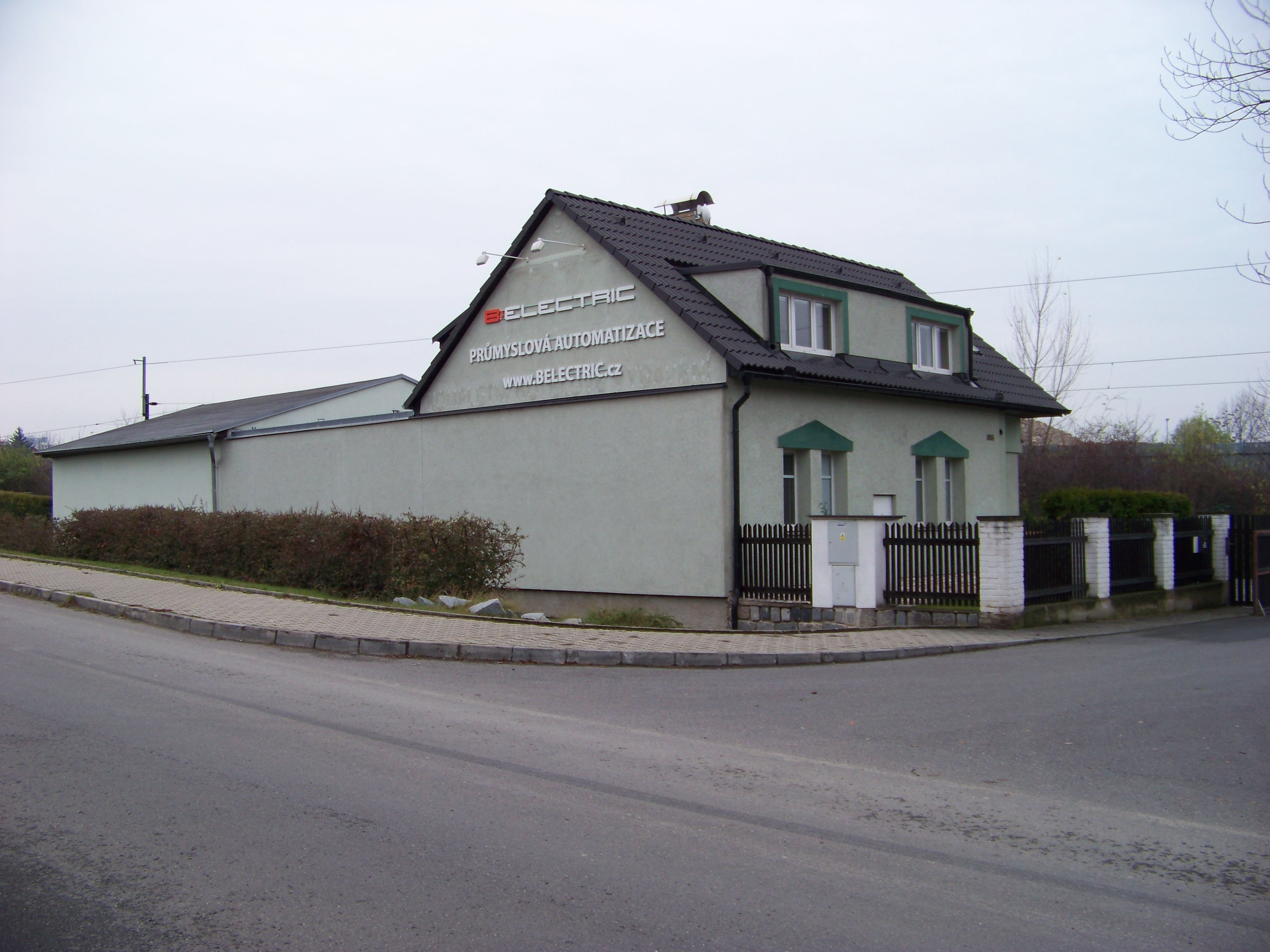 Prague-Záběhlice, the Czech Republic. Zakrytá street, a house No 1855/2, a place of the former village Dolní Roztyly.